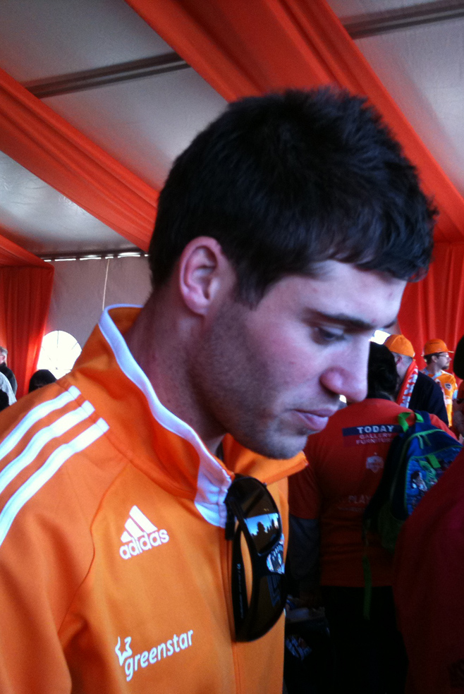 At the Dynamo Stadium ground breaking